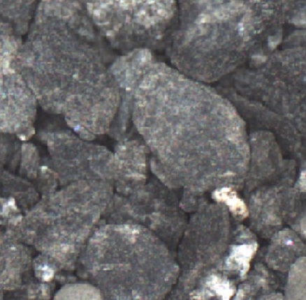 Kaskapau Shale seen through microscope